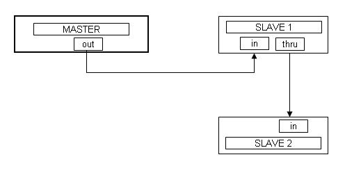 this image is about MIDI comunication between Master and two slave